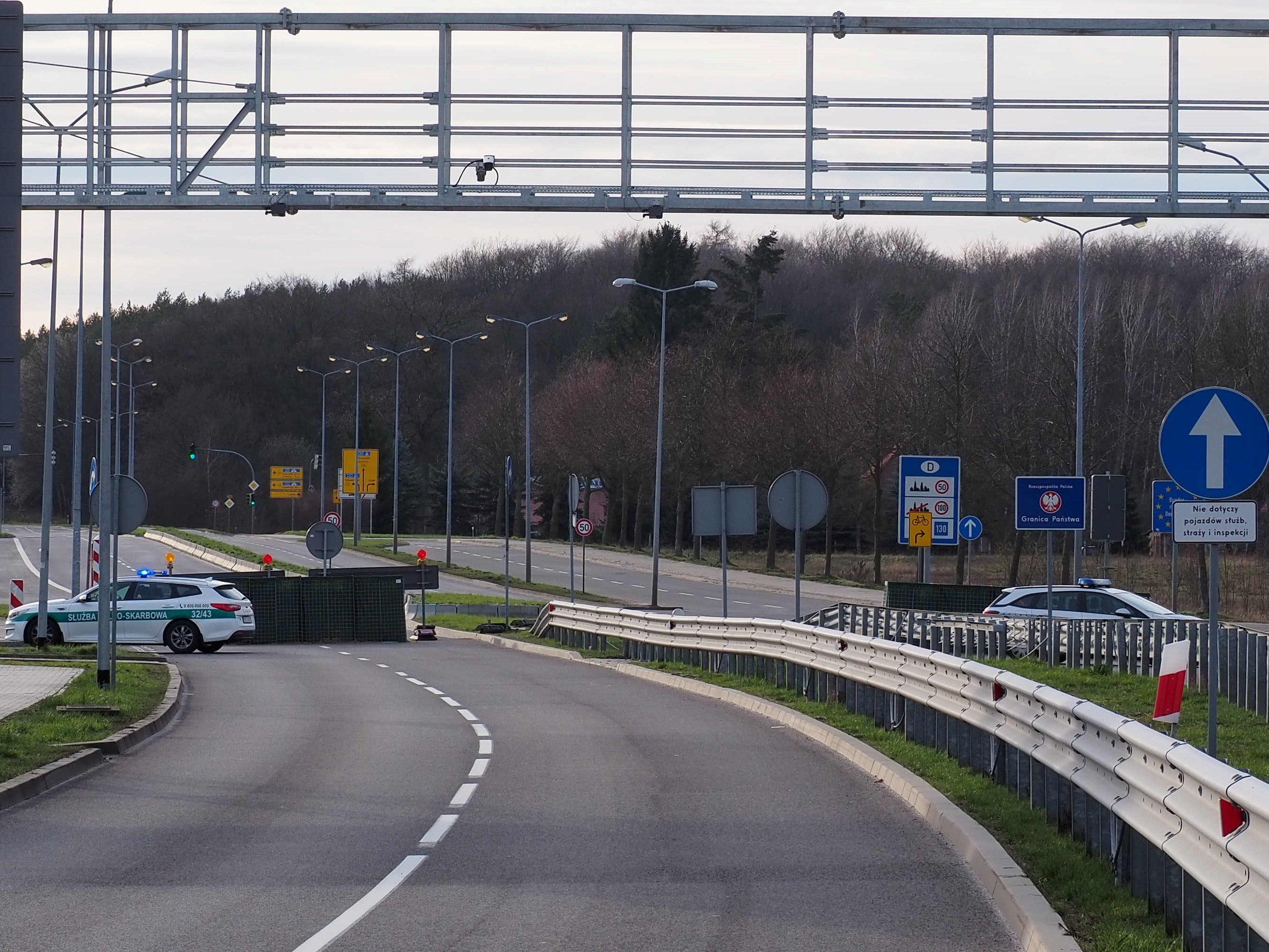 Roadblocks and police vehicles at closed border between Germany and Poland in Lubieszyn during the COVID-19 pandemic in 2020.